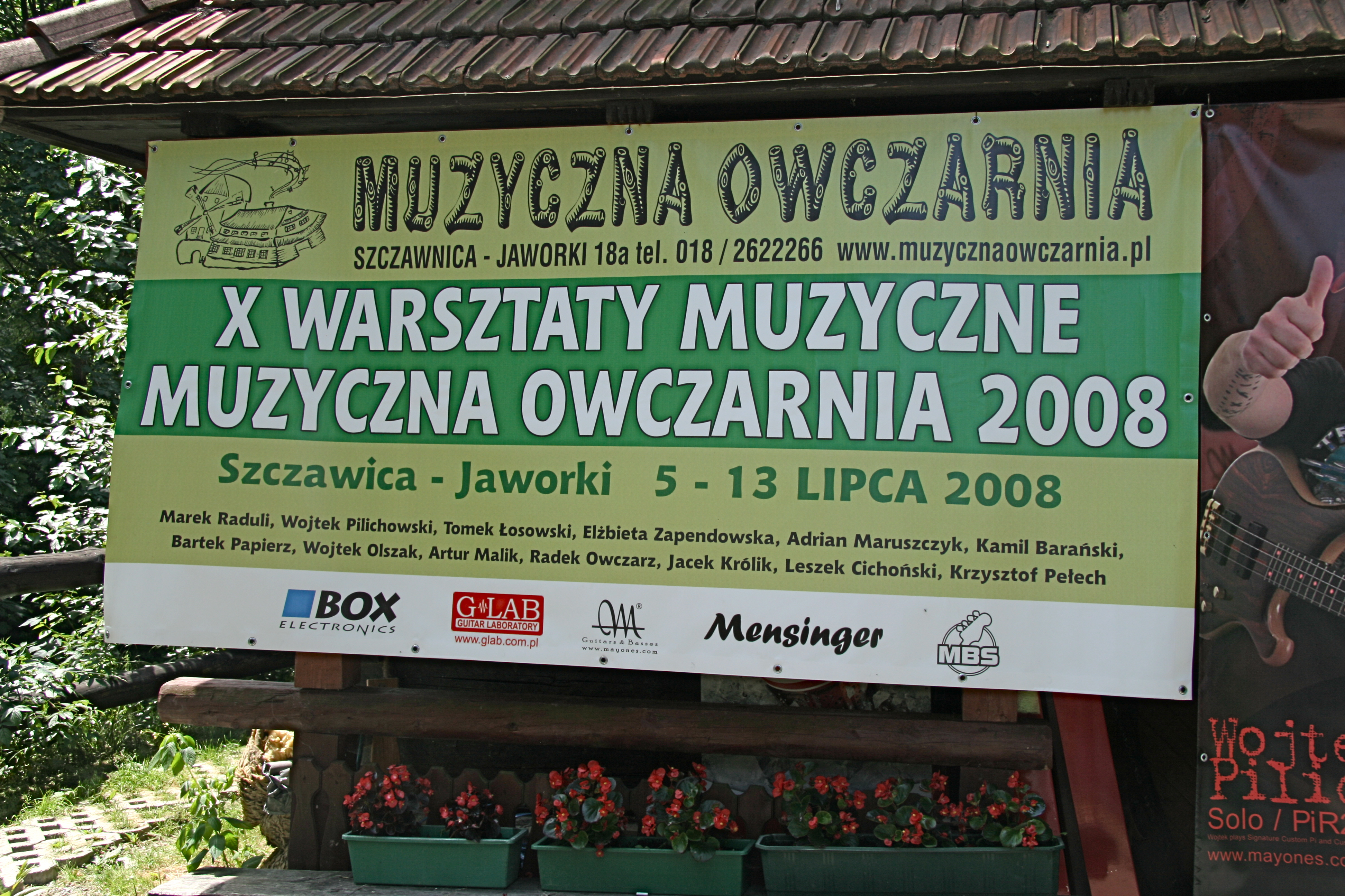 Muzyczna Owczarnia (association and music club in Jaworki, Poland) — stage. Poster of X International Music Workshops with ΠR2 band.